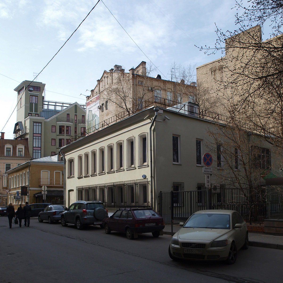 Consulate of Turkmenistan in Moscow. The embassy chancery is one block to the left of camera location